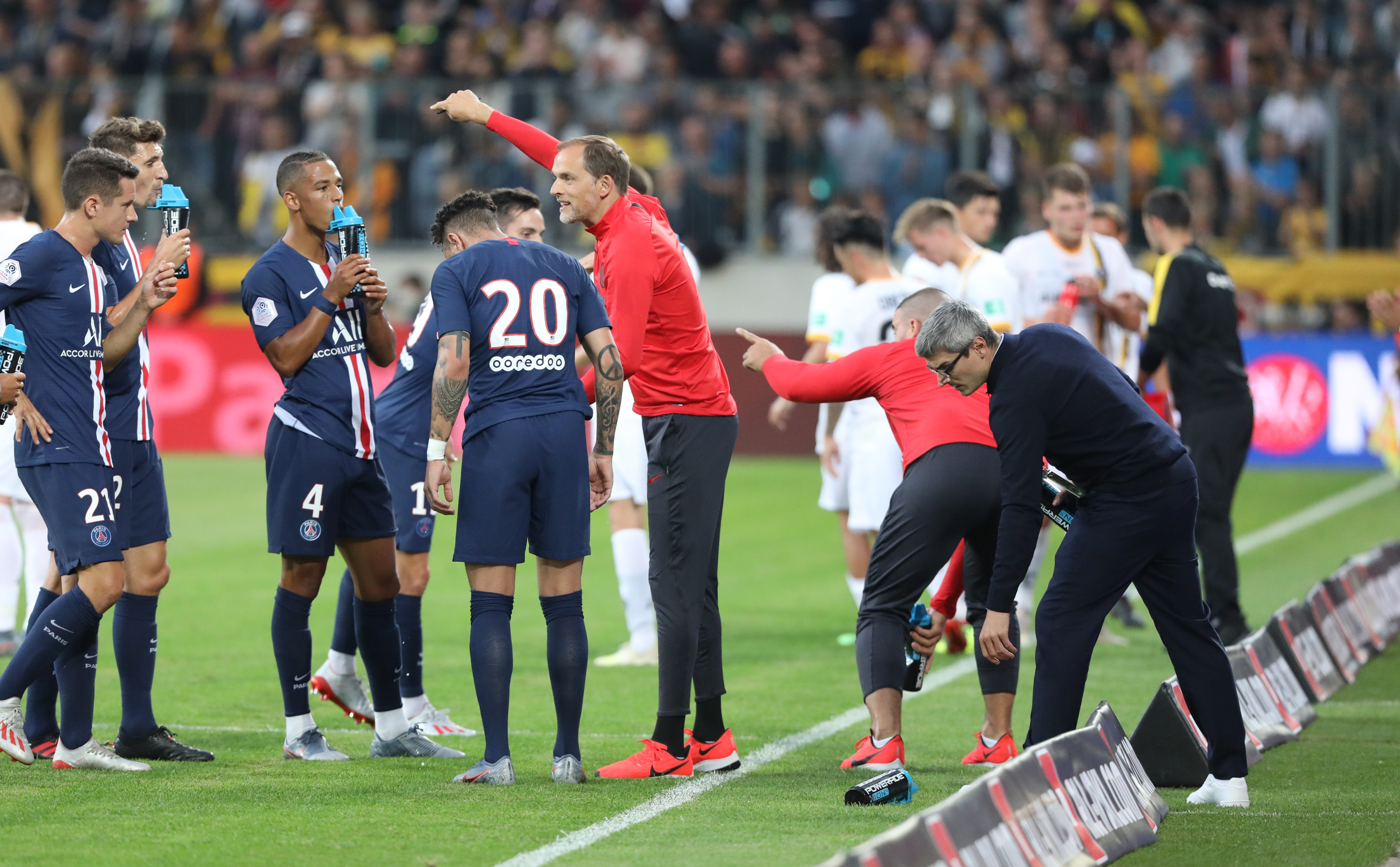 Test game, 17th July 2019: SG Dynamo Dresden vs. Paris Saint-Germain 1:6 (0:3)